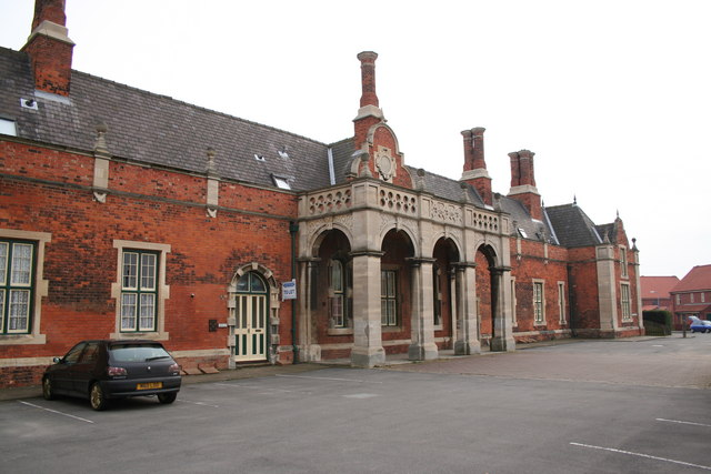 Louth Station